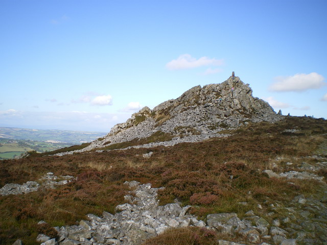 Manstone Rock from the south Manstone Rock, the highest point on the Stiperstones ridge, with its trig point.